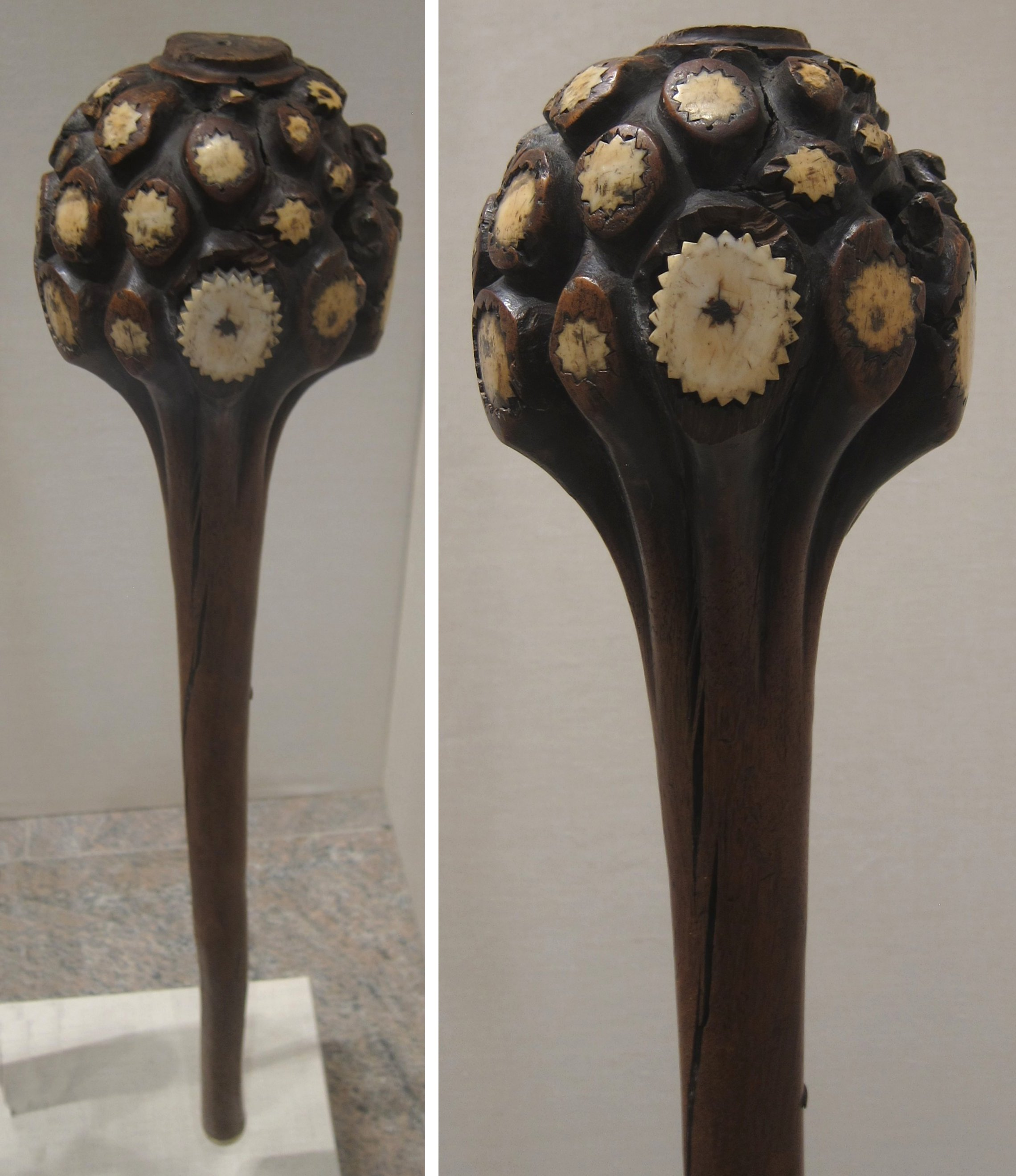 Club (Vunikau Vulibuli Vonotabua or Dromu Vonotabua), early 19th century, Fiji Culture, wood, whale ivory, 30 1/2 in. (77.5 cm), Metropolitan Museum of Art, accession 1985.317.6